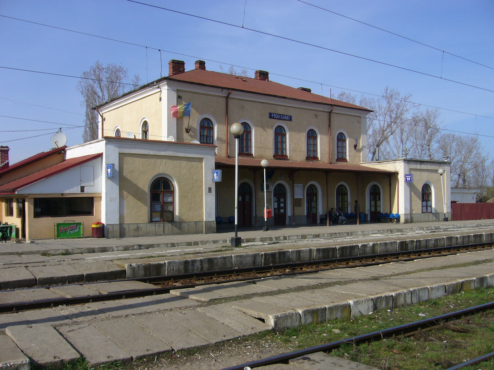 Podu Iloaiei Railway Station, built at the end of the XIX century